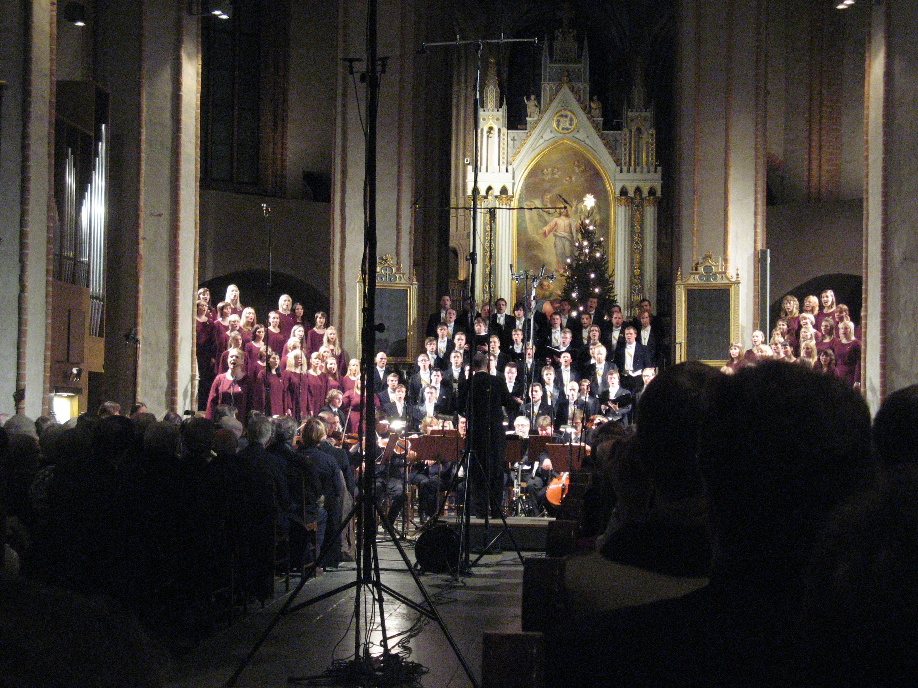 The student choirs of Åbo Akademi University Brahe Djäknar and Florakören and Akademiska Orkestern in Turku Cathedral.